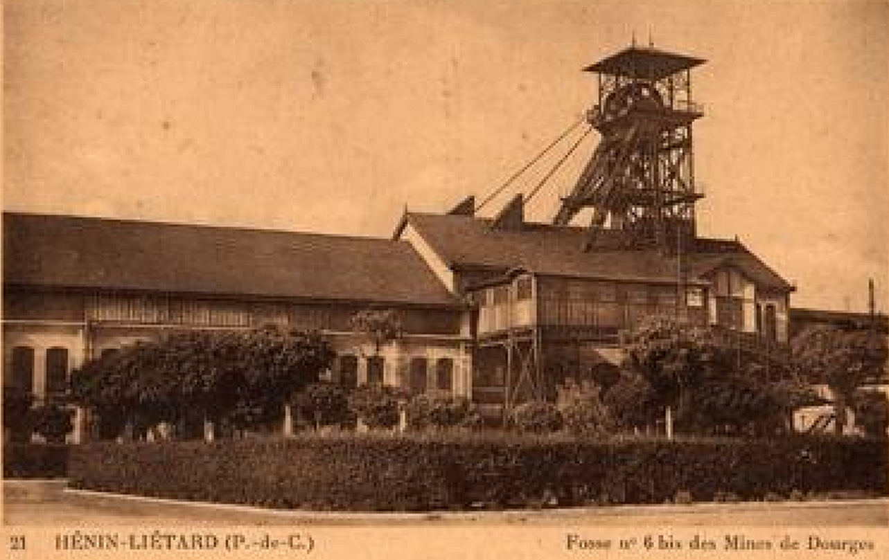 Compagnie des mines de Dourges, Pas-de-Calais, France.